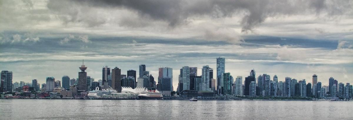 Vancouver, BC skyline from the Lonsdale Quay in North Vancouver